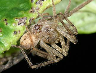 mating Pseudopoda spirembolus from Okinawa.